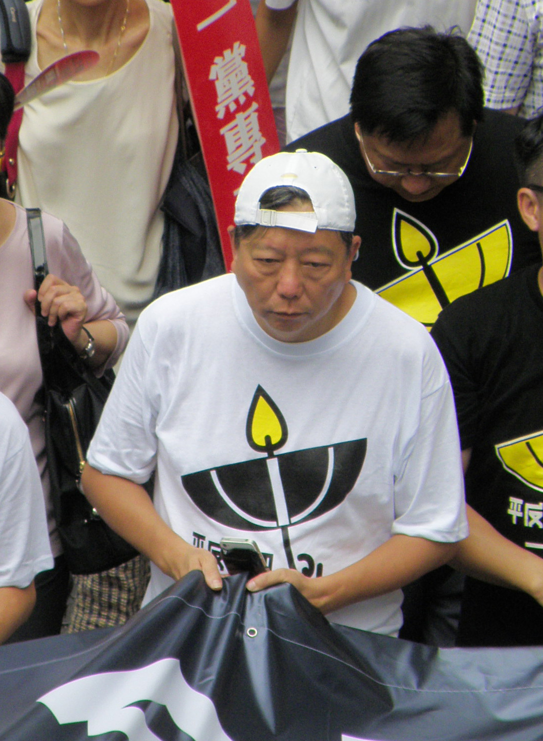 Lee Cheuk-yan, chairman of the Labour Party, Hong Kong.